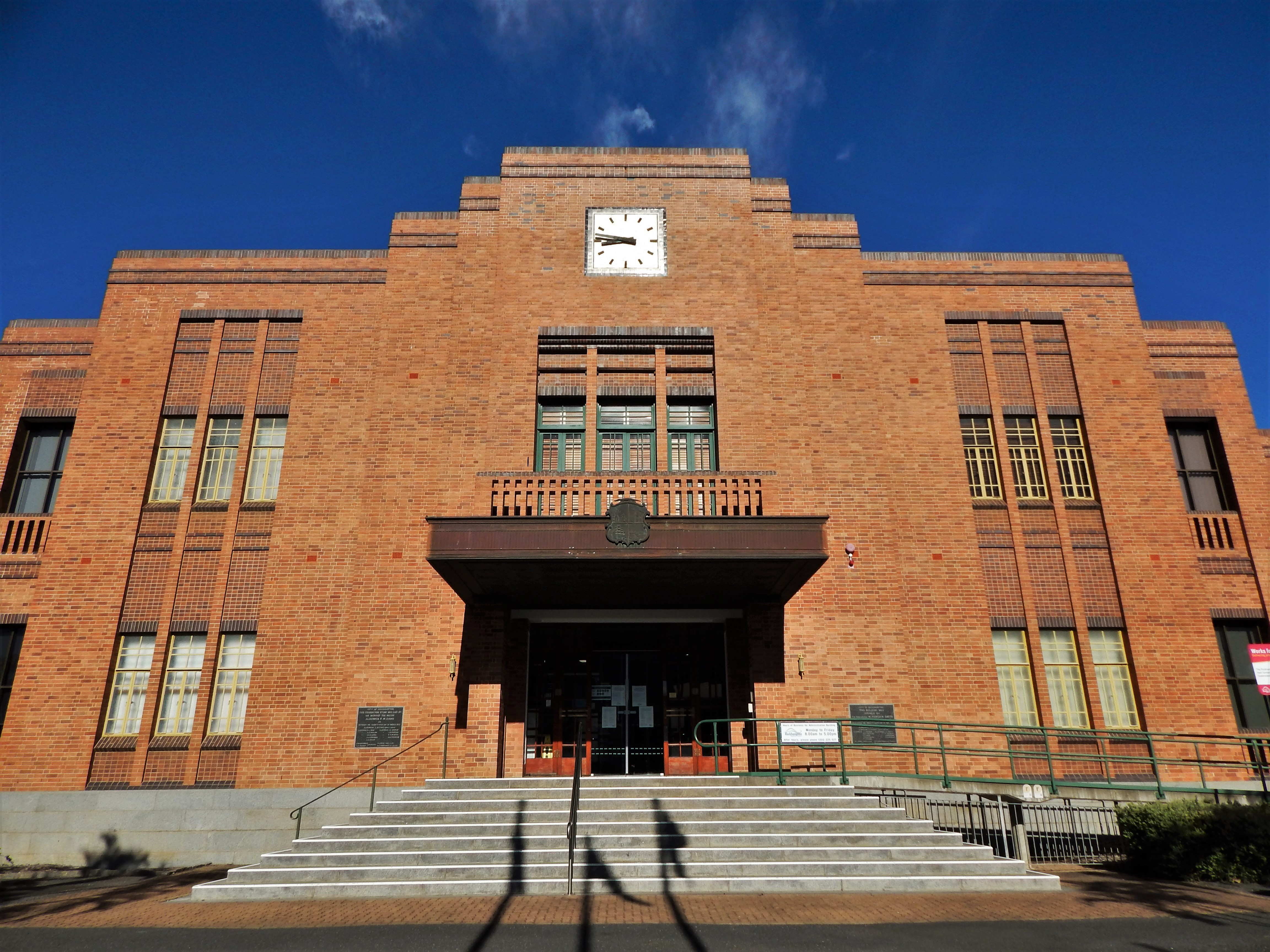 The façade of Rockhampton's City Hall, where the offices of Rockhampton Regional Council are housed.